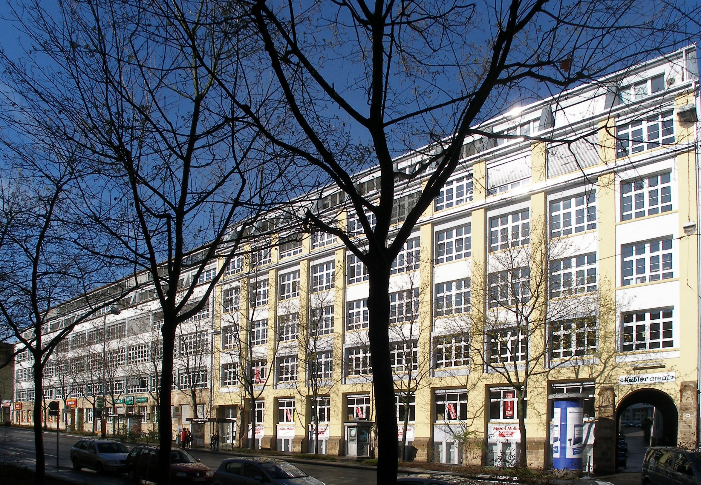 Kübler-Areal Ostendstr. 106-114